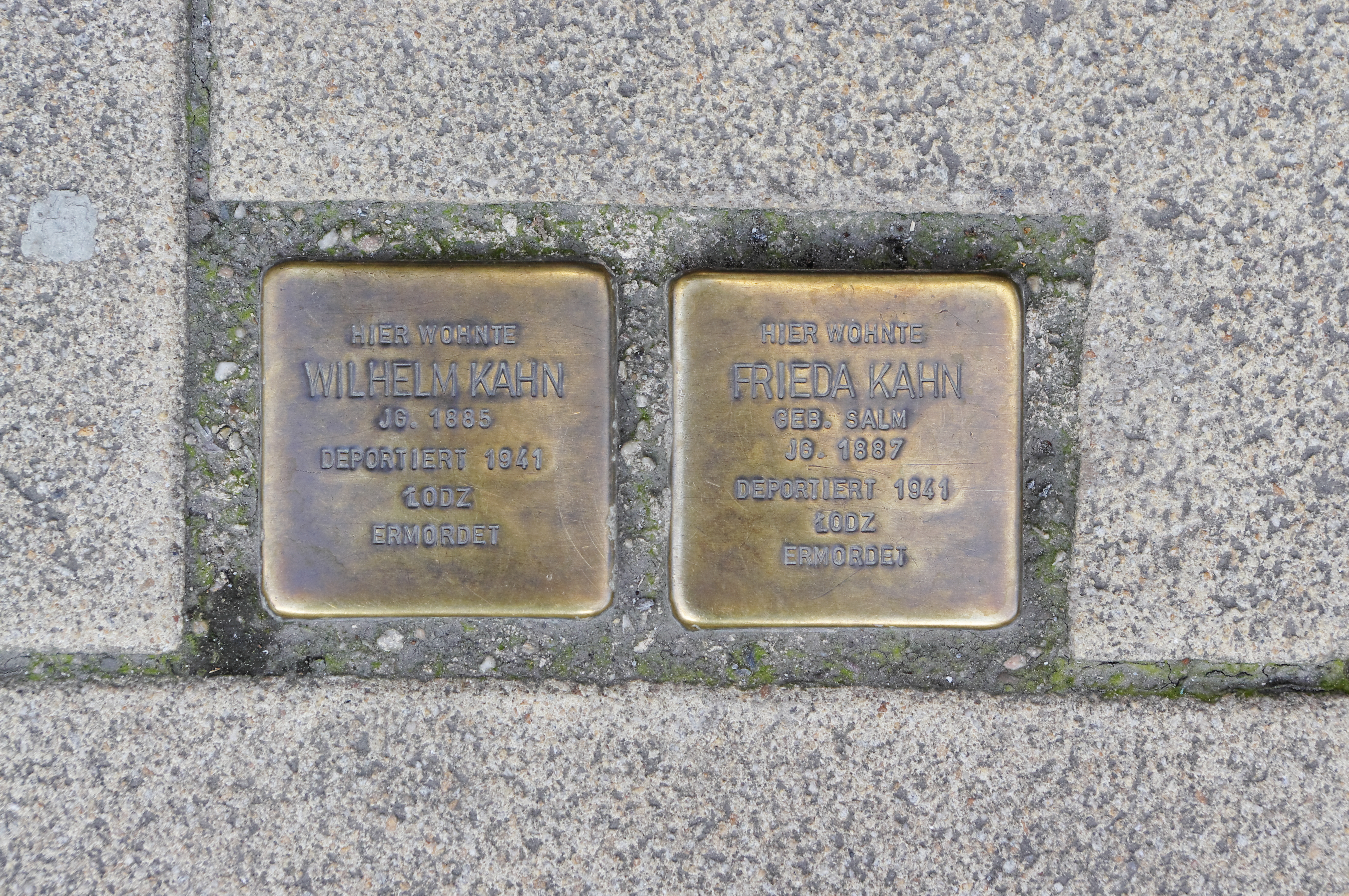 Stolpersteine at house Köln-Berliner-Straße 7 in Dortmund, Germany